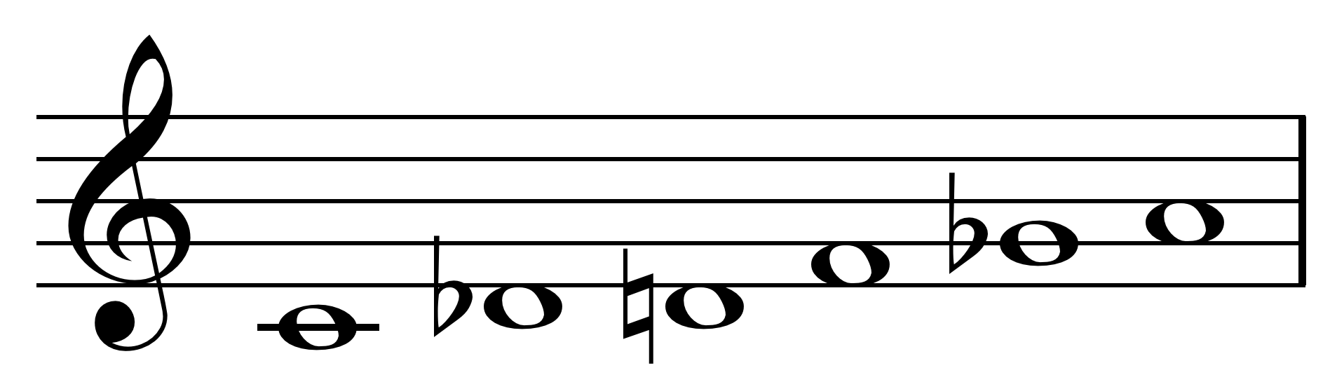 6-Z44 hexachord. Created by Hyacinth (talk) 23:22, 10 October 2010 using Sibelius 5.